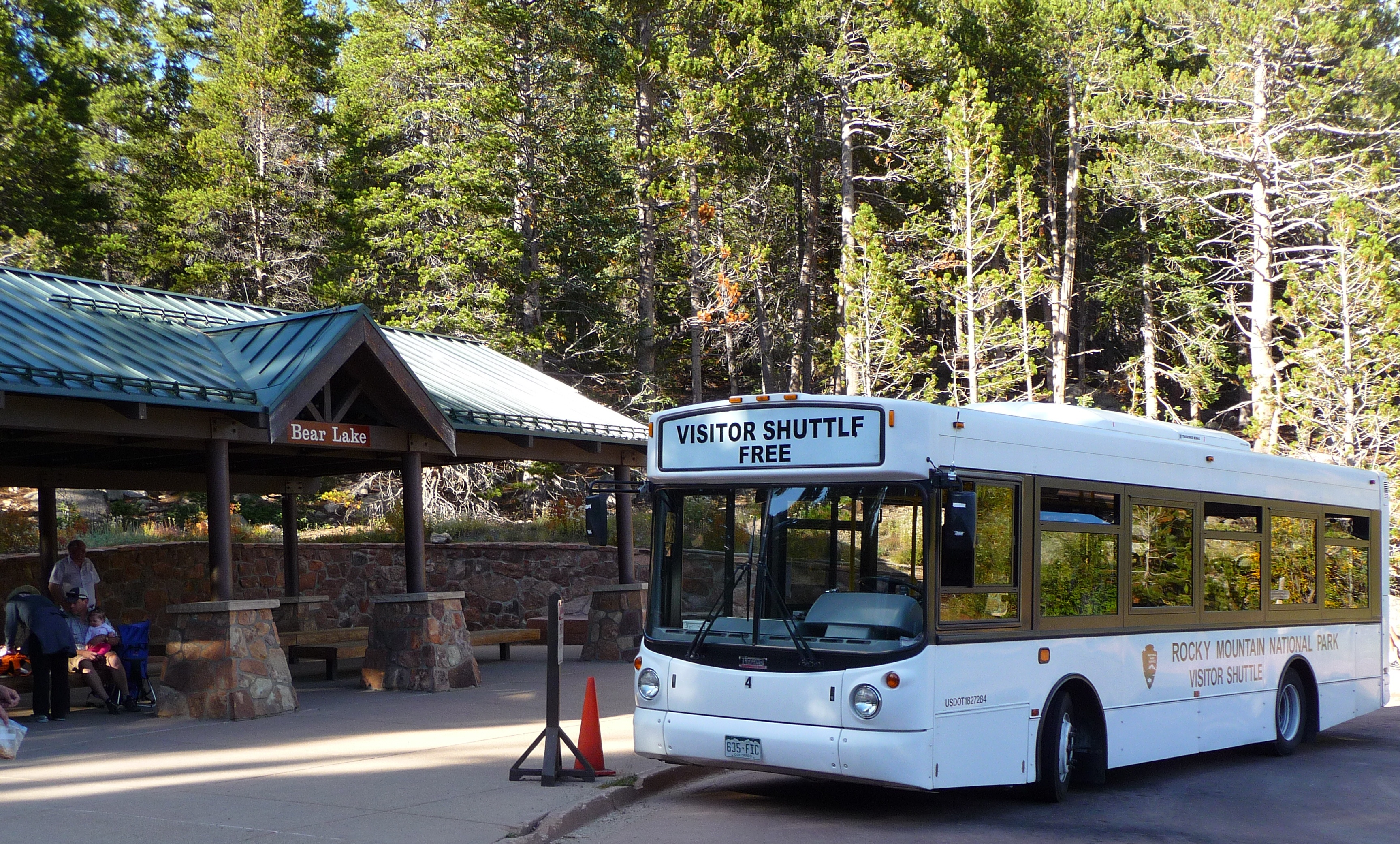 See file name